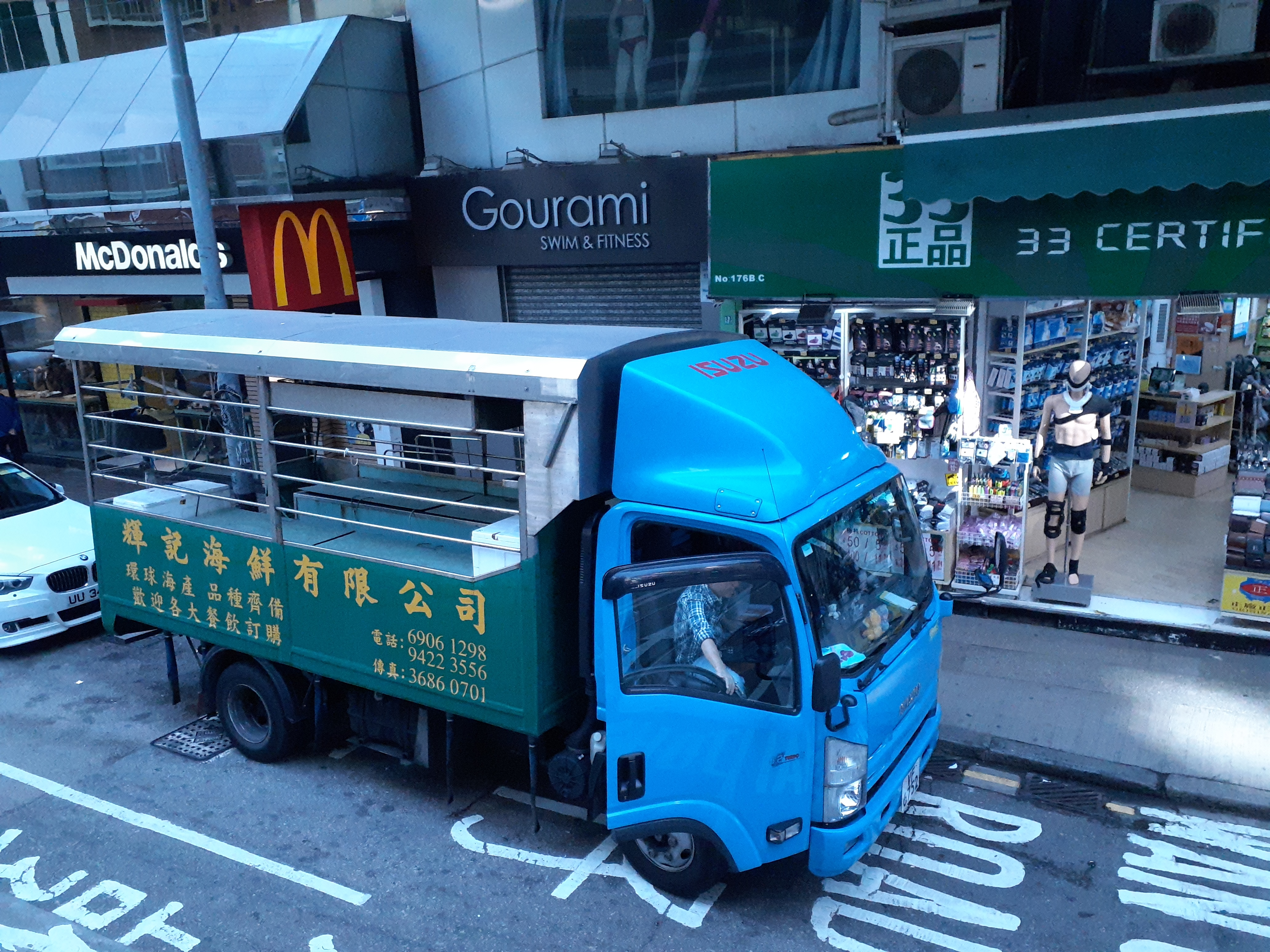 HK WC tram 64 view 灣仔 Wan Chai Road 莊士敦道 Johnston Road in November 2019